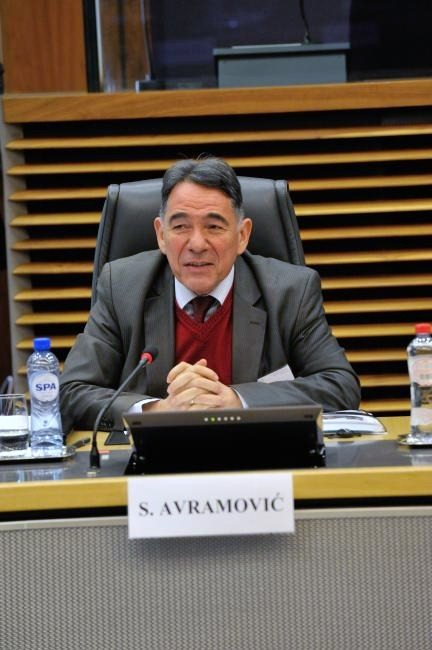 Sima Avramovic at European Commision